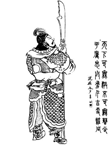 A Qing portrait of Cao Hong